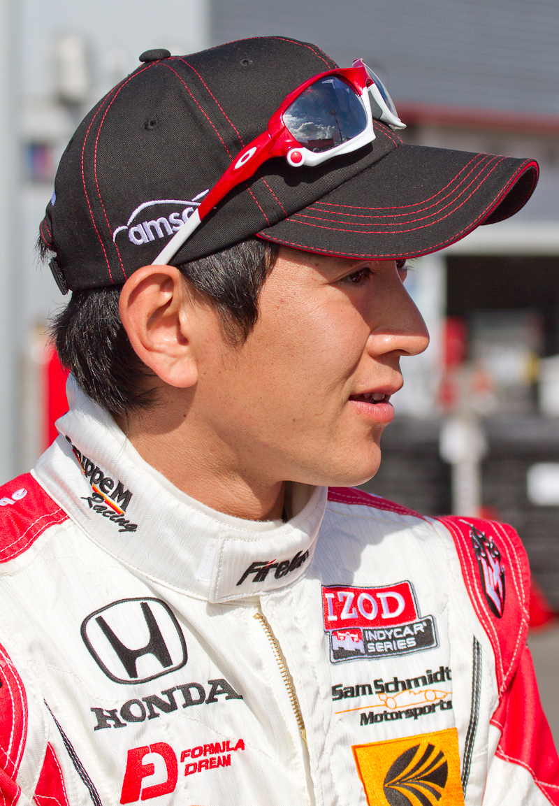 IndyCar Series 2011 Rd.15 Indy Japan 300: Hideki Mutoh (Sam Schmidt Motorsports)